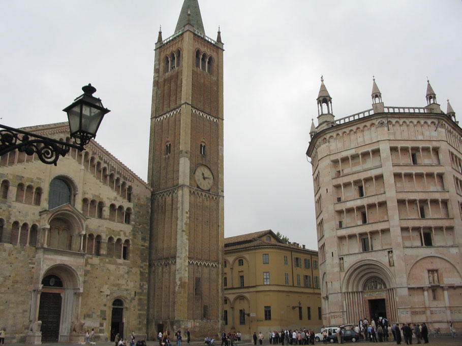 Parma, Italy. Fassade of the cathedral and baptisterio